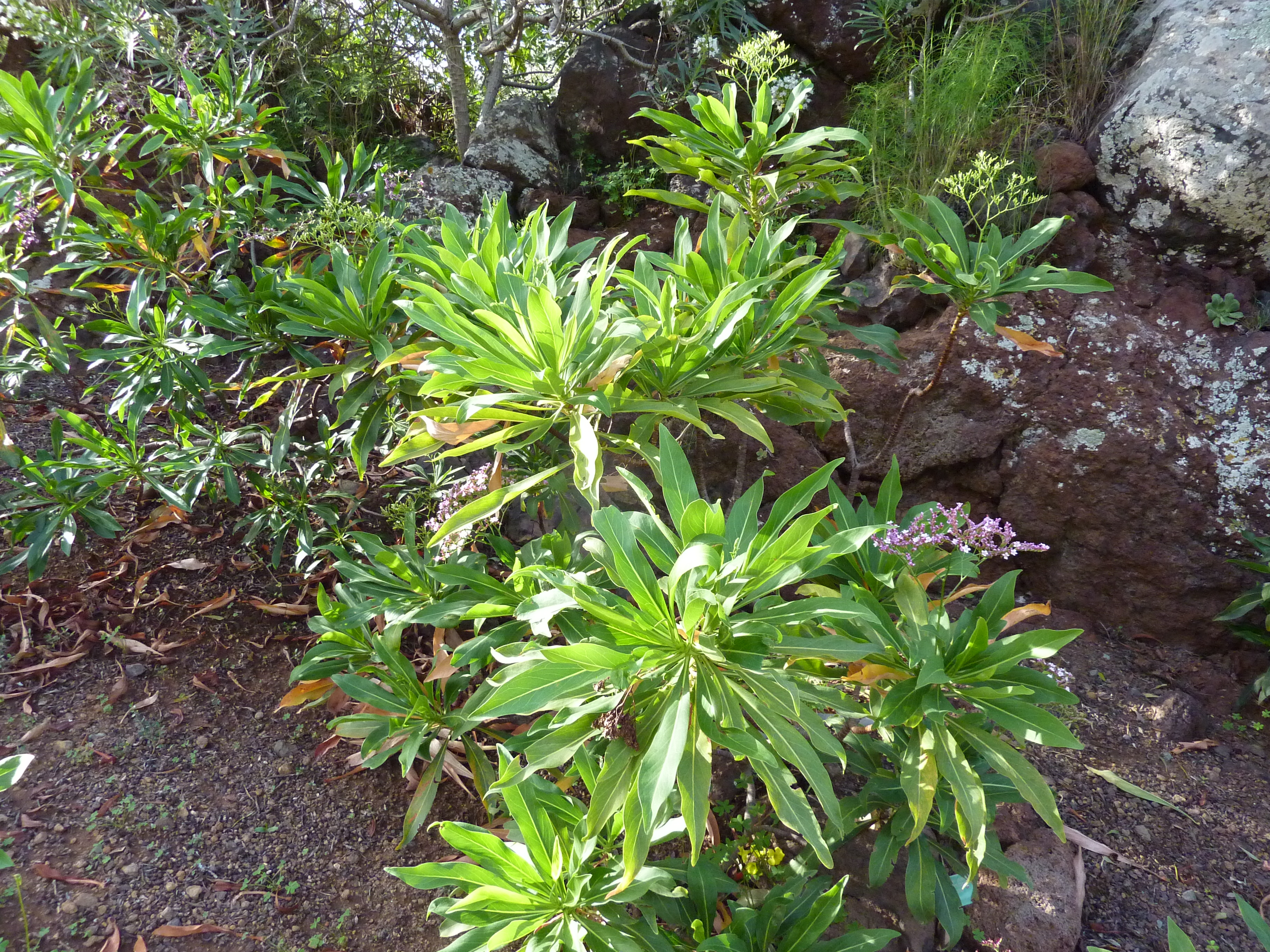 Limonium dendroides in the Jardín Botánico Canario Viera y Clavijo.